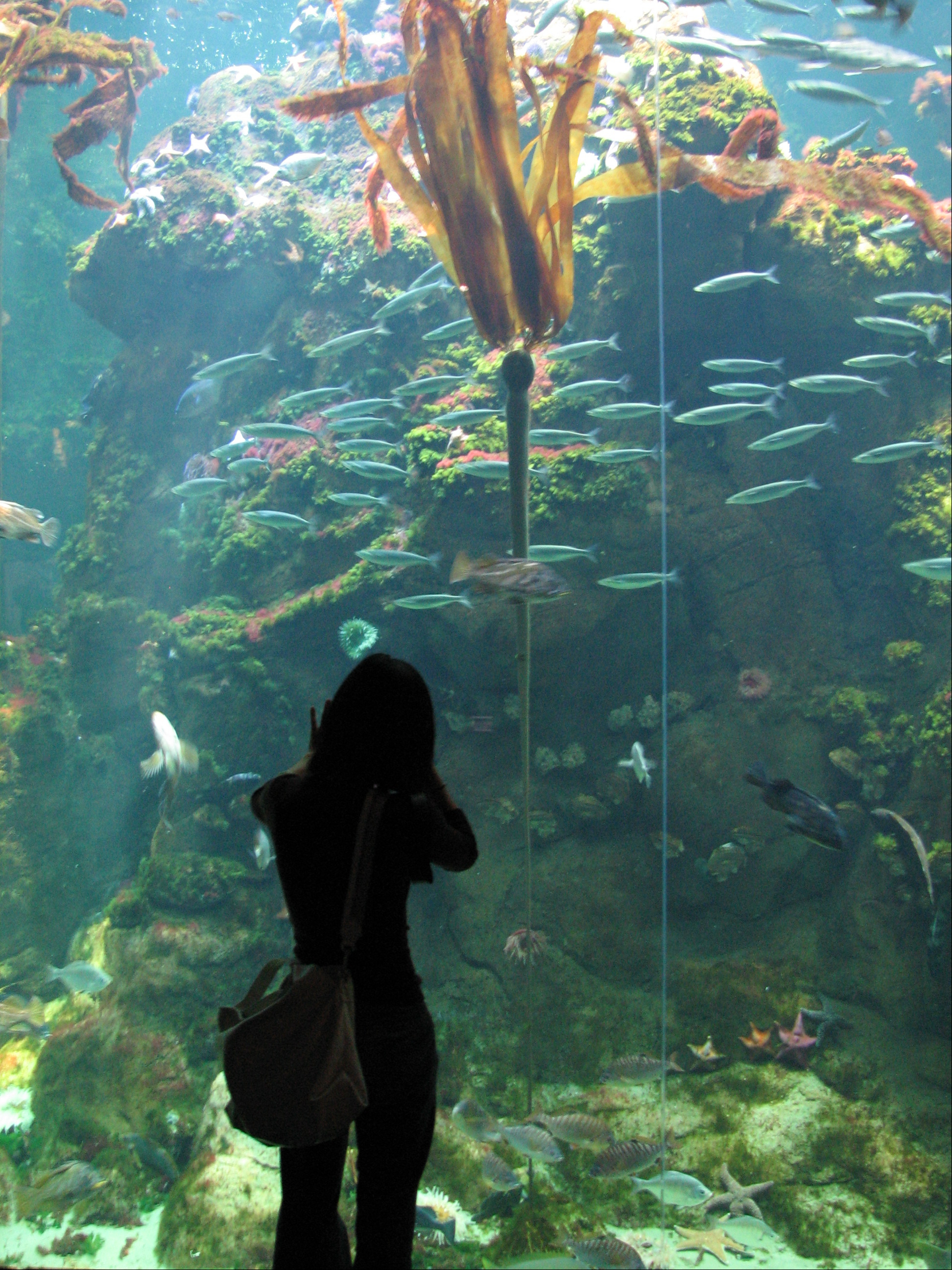 Bull kelp (Nereocystis luetkeana) in the Steinhart Aquarium at the California Academy of Sciences, San Francisco, California